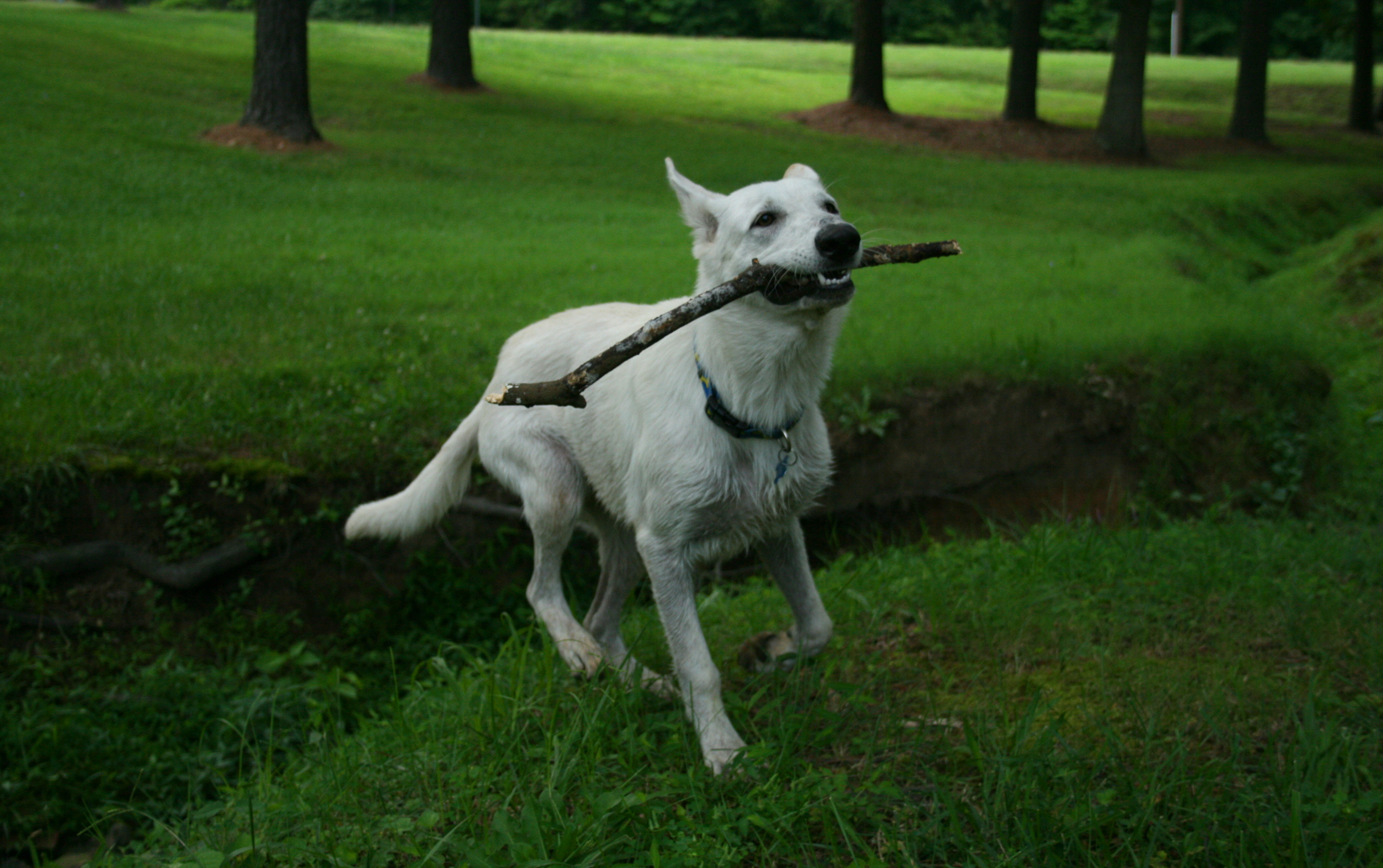 White German Shepherd pup retrieving a stick at the Research Triangle Institute in the Research Triangle Park.